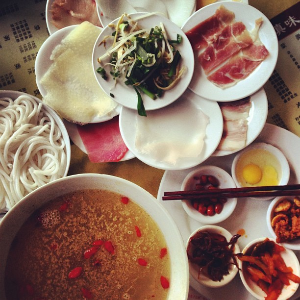 Cross Bridge Noodles 过桥米线